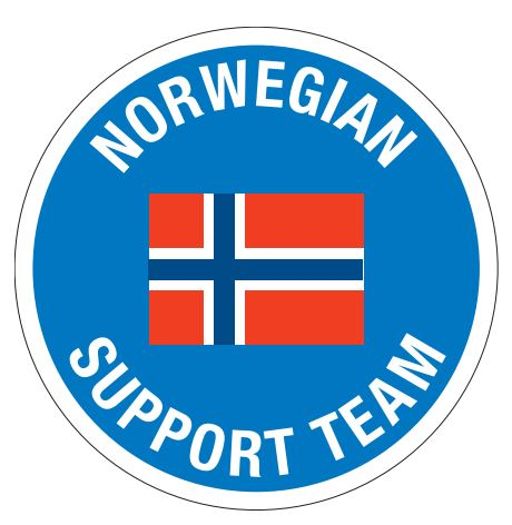 Logo for Norwegian UNDAC Support. A group of the Norwegian civil defence that do international assignment.